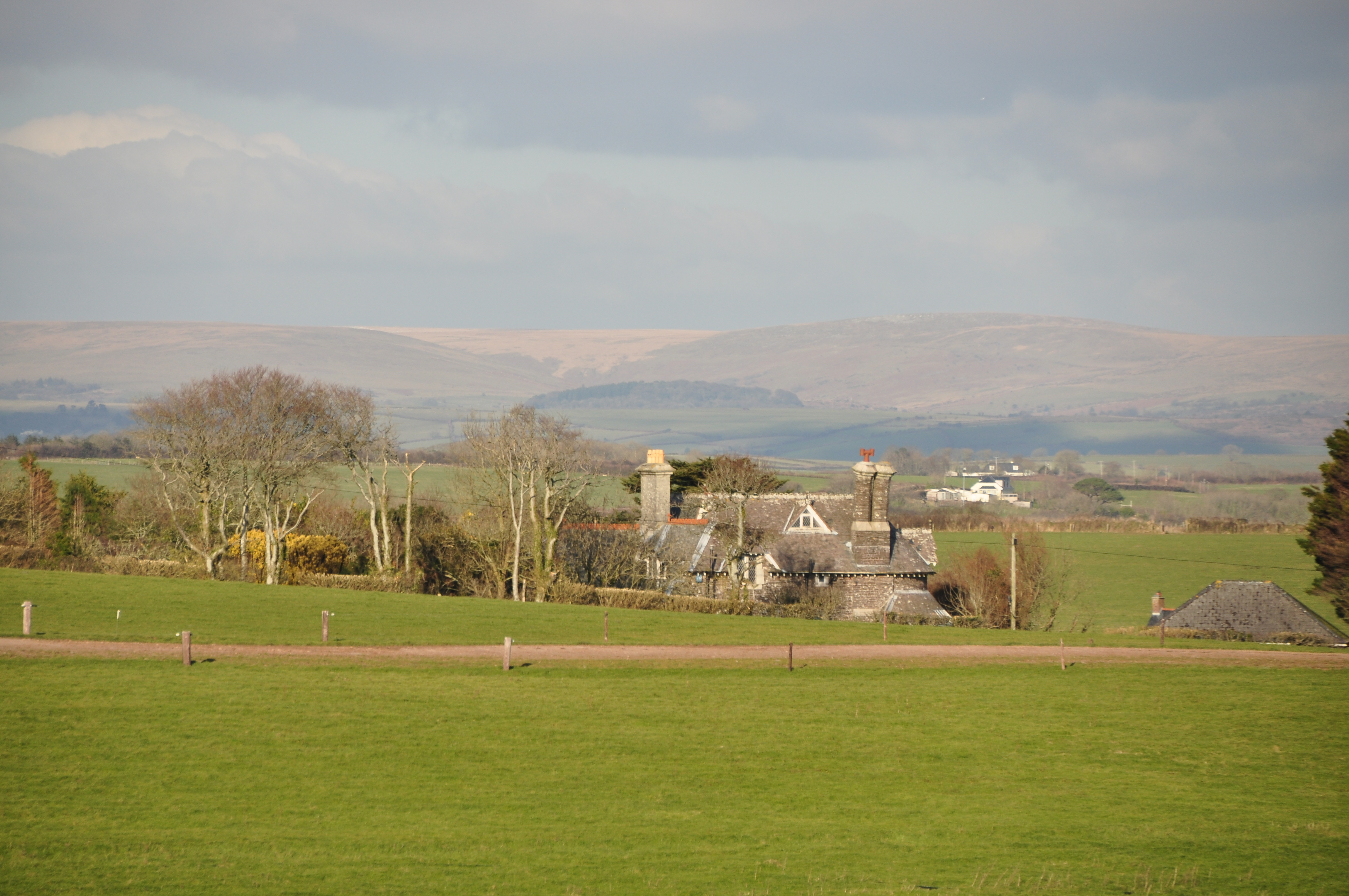 Eastern Lodge (a former gatehouse of Membland) and southern Dartmoor